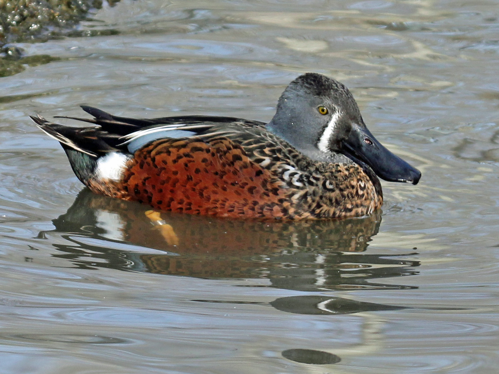 Male Australasian Shoveler (Anas rhynchotis) - Scotland Heights Waterfowl Park, Scotland Neck, North Carolina